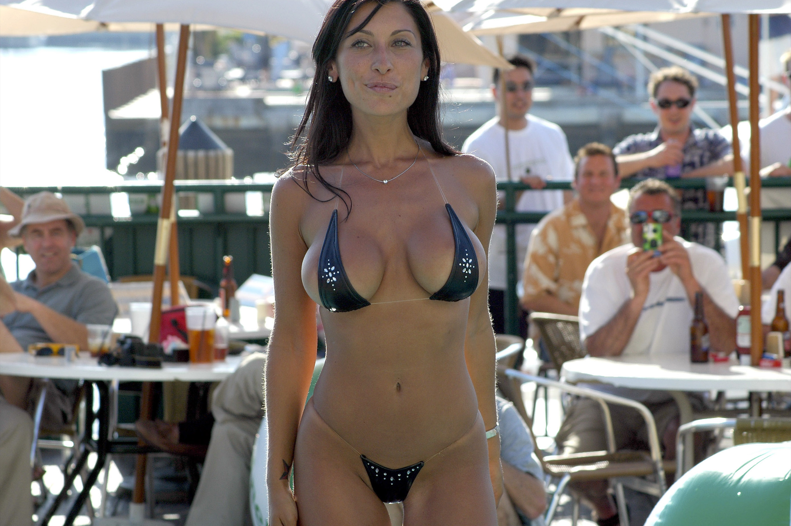 Brazilian bikini model Jessica Canizales.